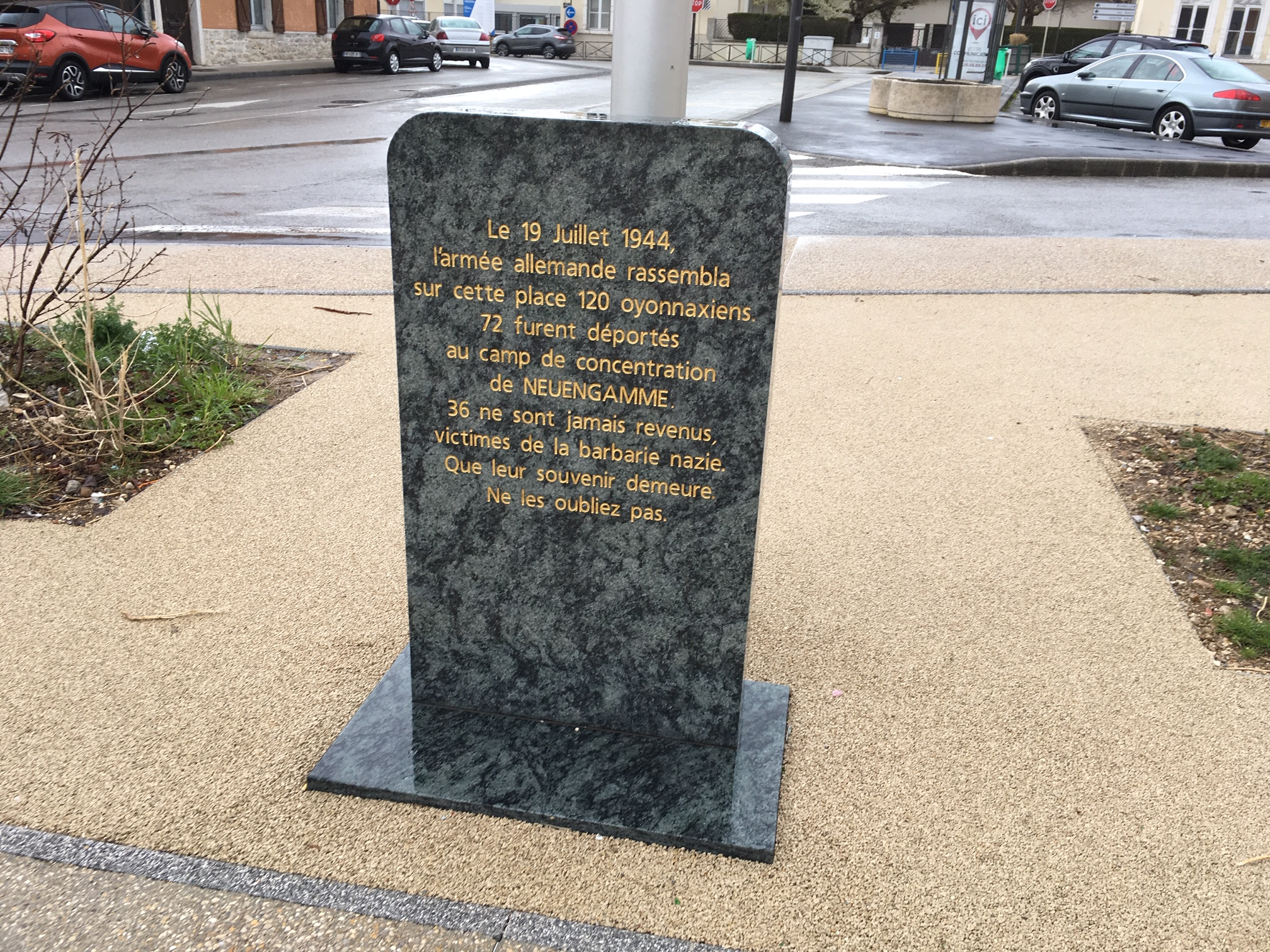 Stèle commémorative des déportés du 19 juillet 1944 à Oyonnax, située Place des Déportés